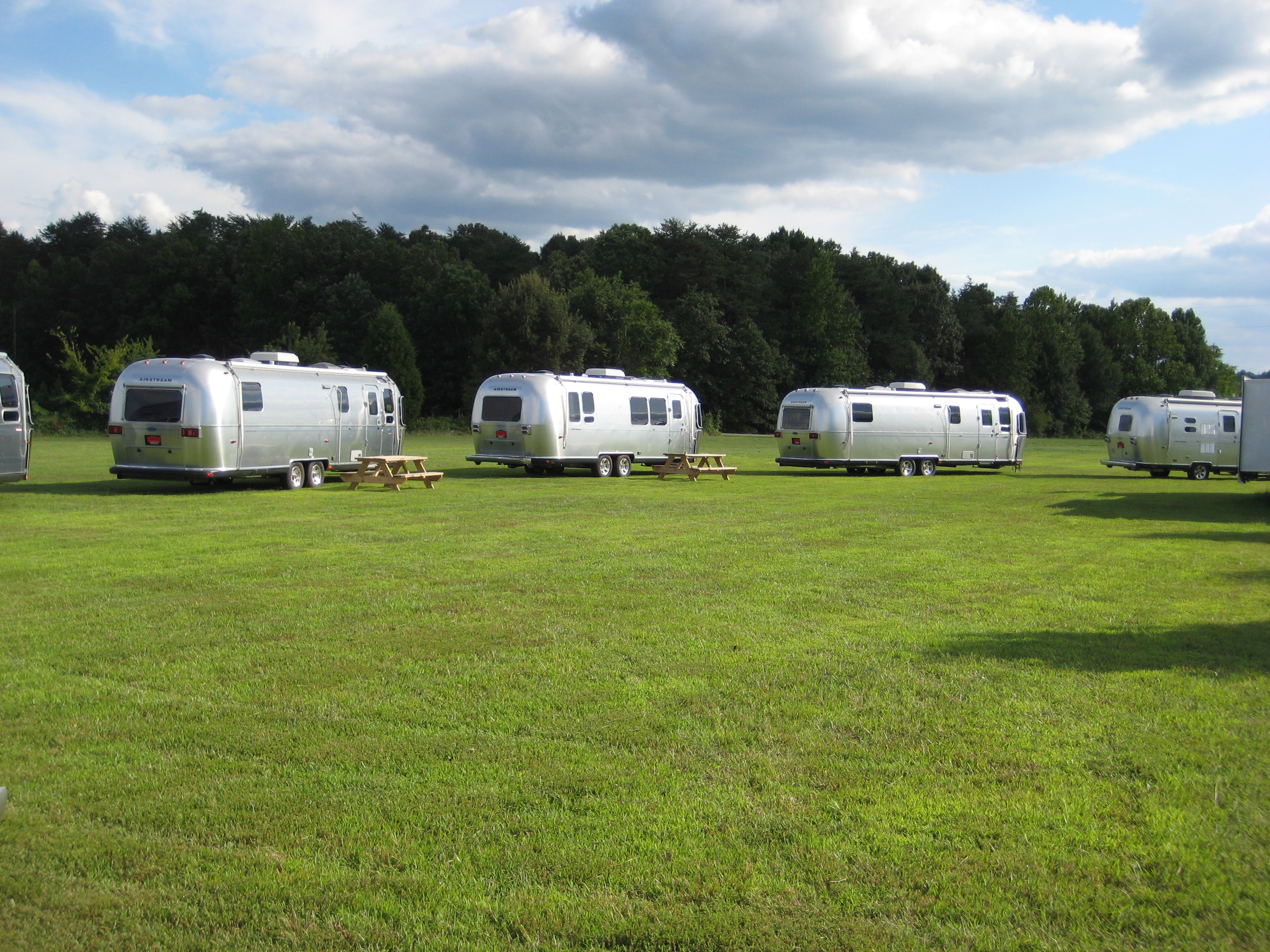 Vintage airstream trailer park